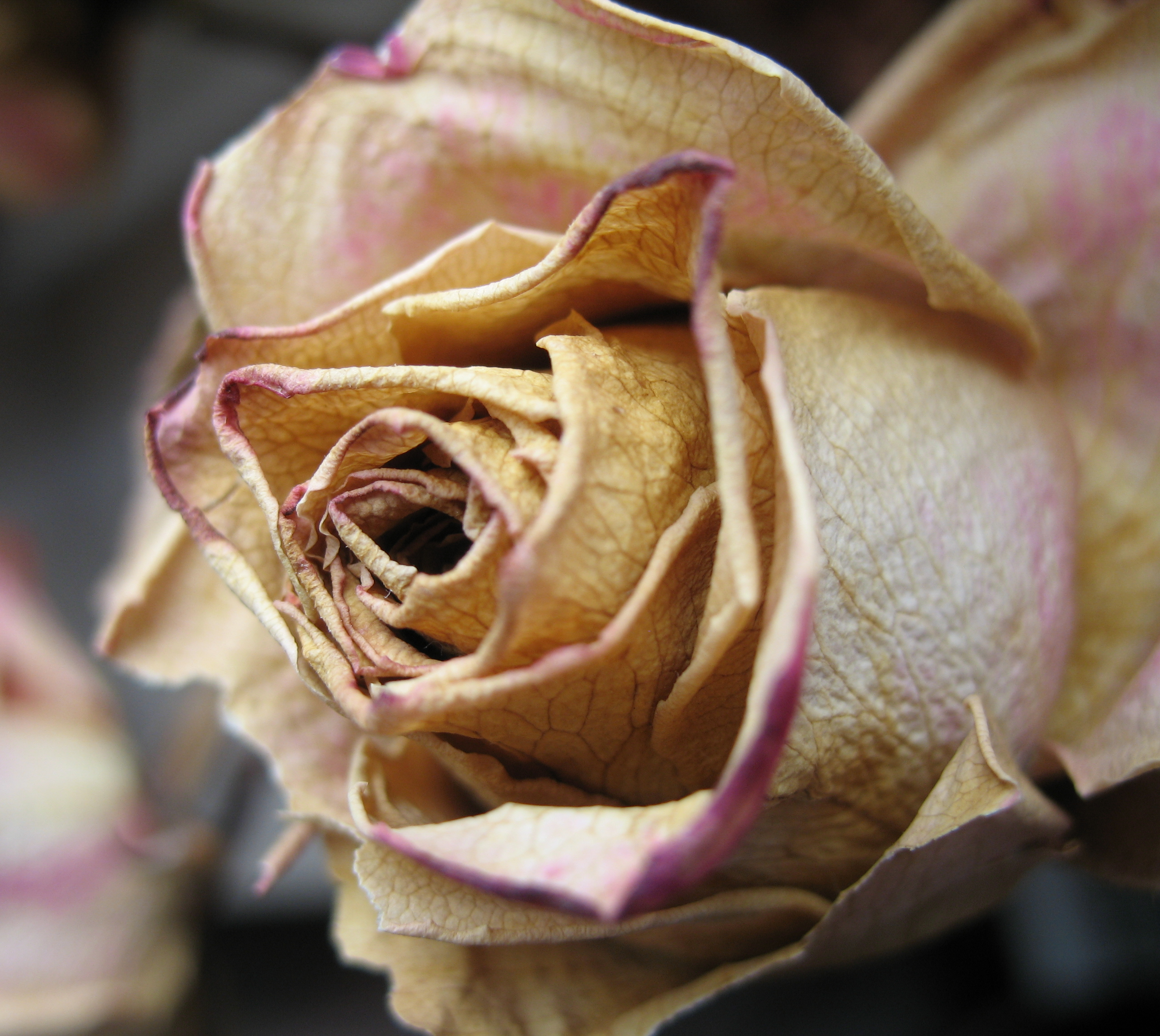 Dried rose flower